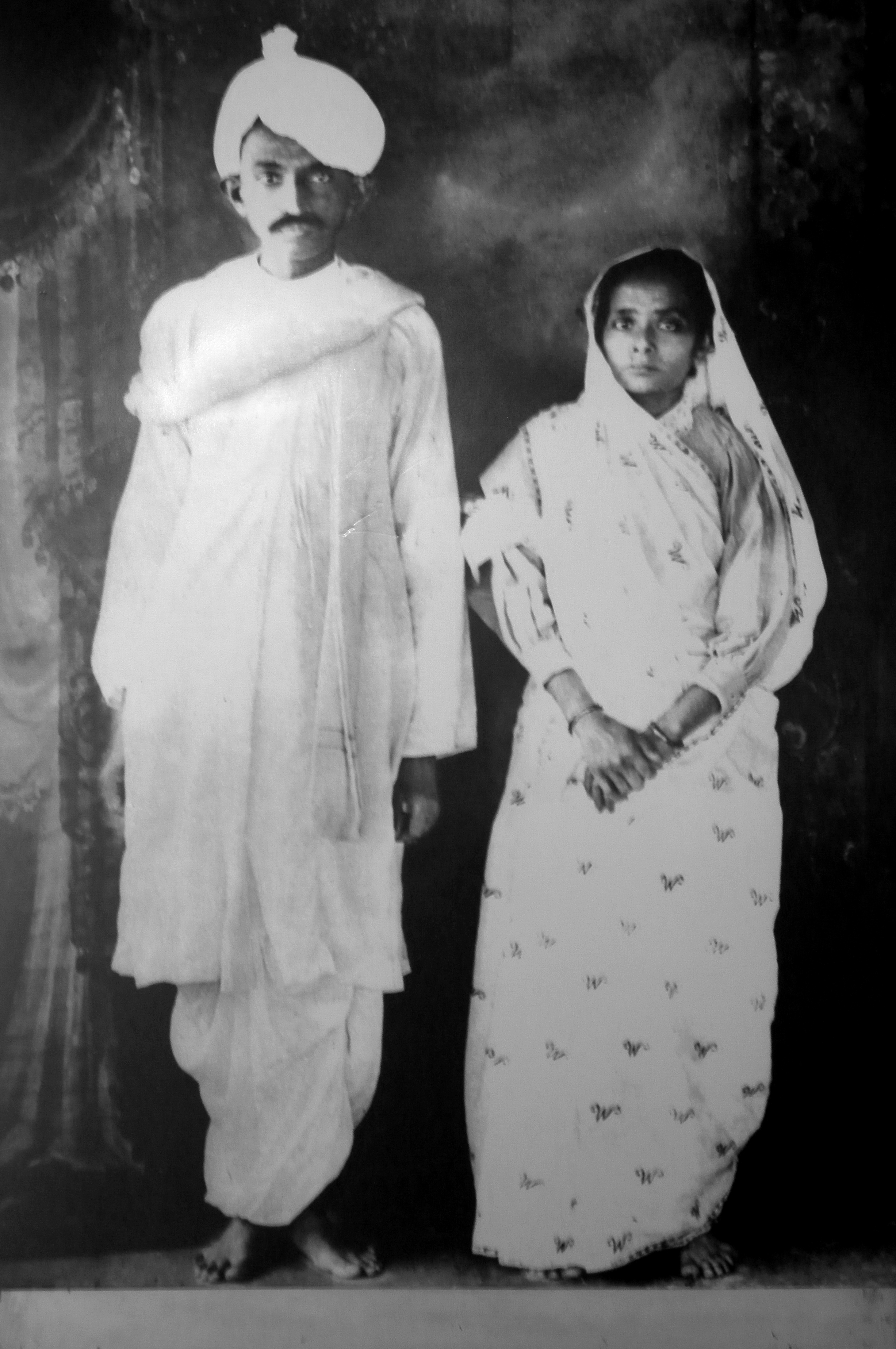 Sabarmathi From the walls of sabarmathi aashram (Photo digitally enhanced) - Gandhiji & Kasthurba